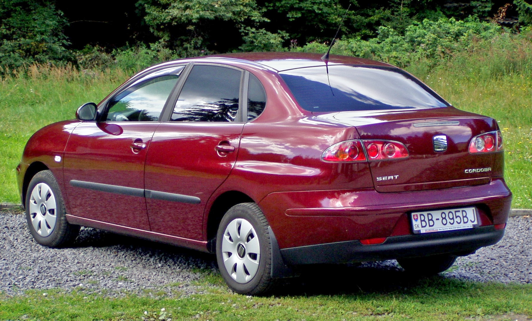 Seat Cordoba